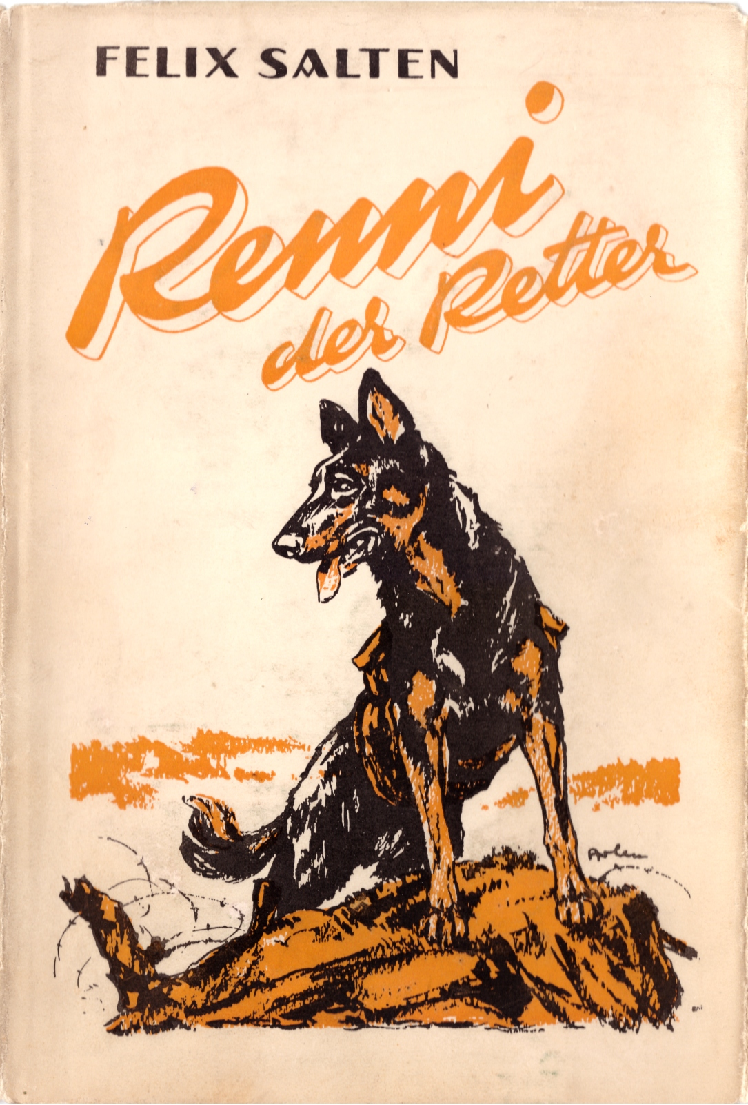 Cover of Felix Salten’s book Renni der Retter (Renni the Rescuer), first edition.